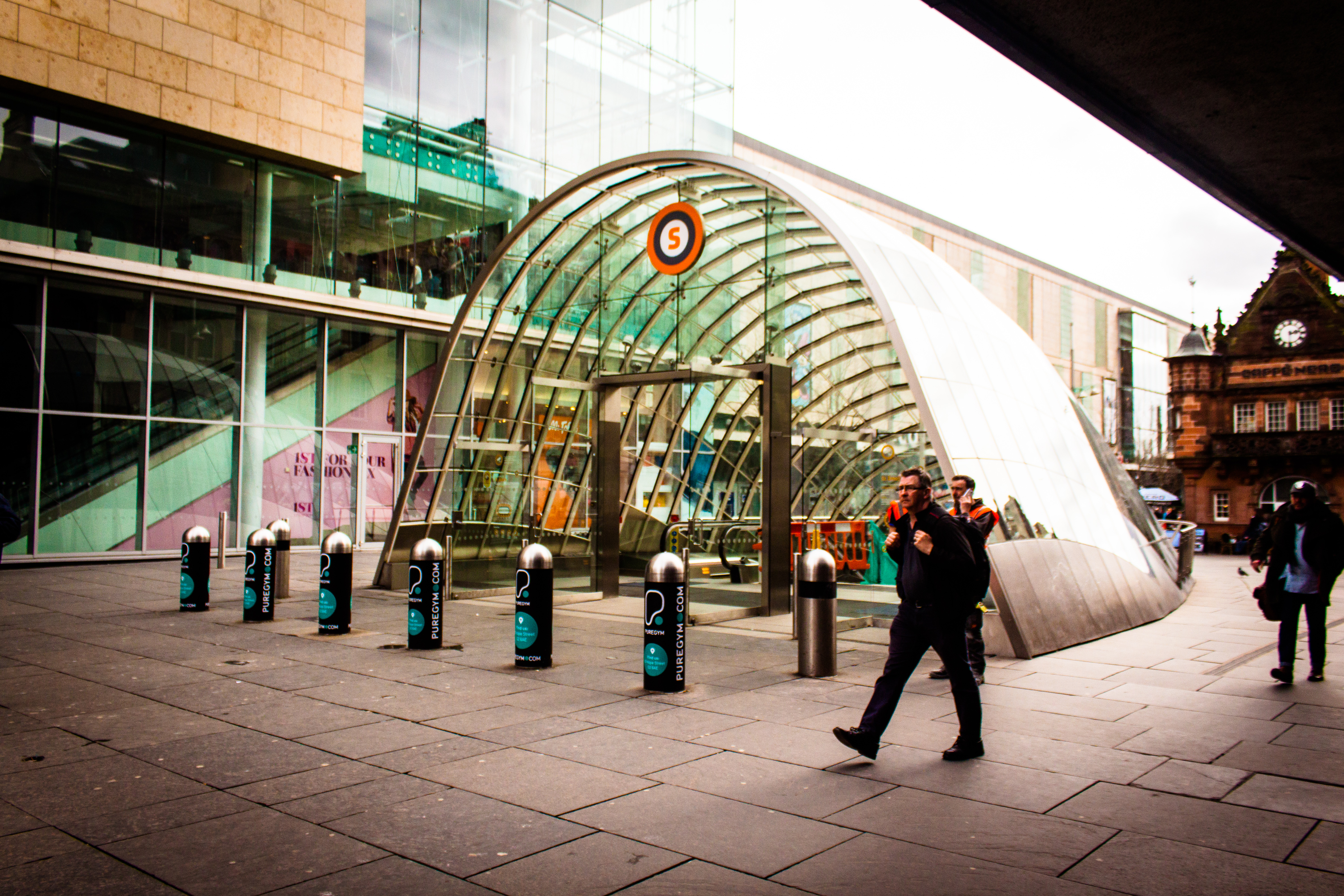 Photograph of glass canopy entrance following St Enoch station revamp.